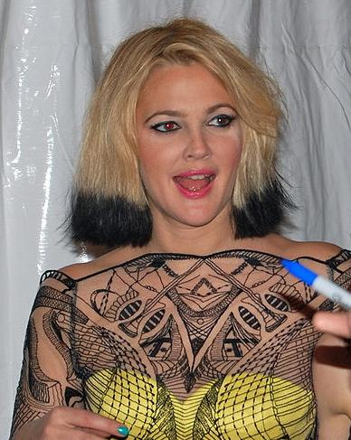 Whip It premiere - Ryerson Theatre - September 13, 2009 depicted person: Drew Barrymore (age: 34.56)